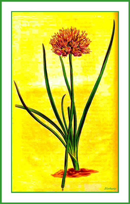 Illustration of Allium angulosum